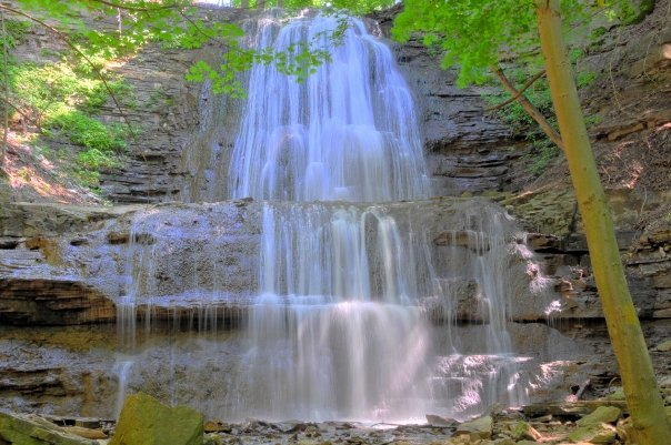 Sherman Falls, Dundas section of the Bruce Trail, Hamilton, Canada.